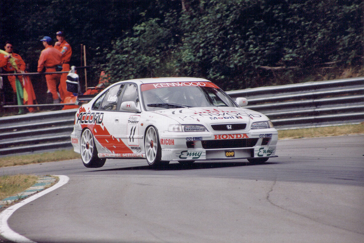 David Leslie driving the Honda Accord at Brands Hatch in 1996, in the British Touring Car Championship.